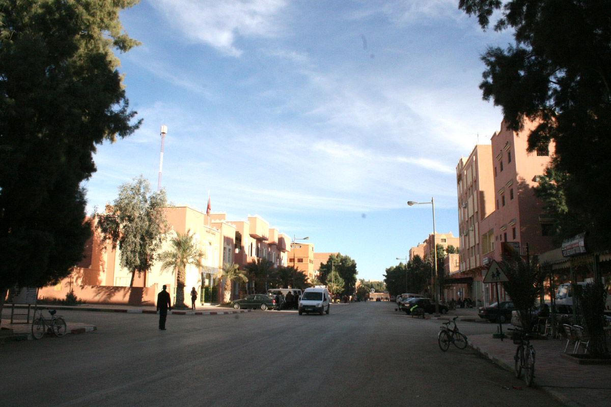 Mohamed 5 Boulevard Erfoud Morocco